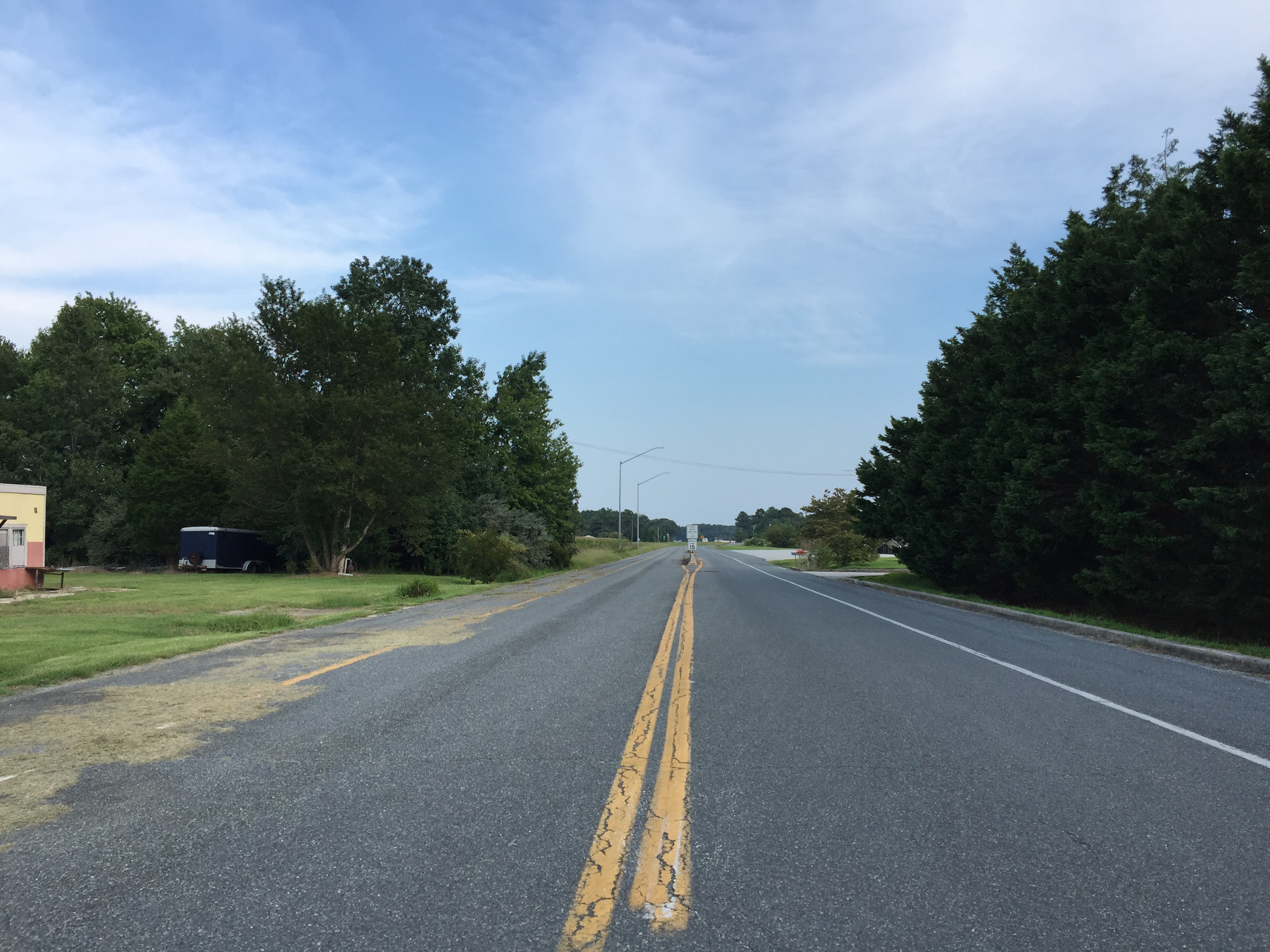 View east along Maryland State Route 731 (Marsh Road) at Old Bradley Road in northwestern Wicomico County, Maryland